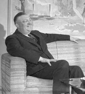 Cropped image.